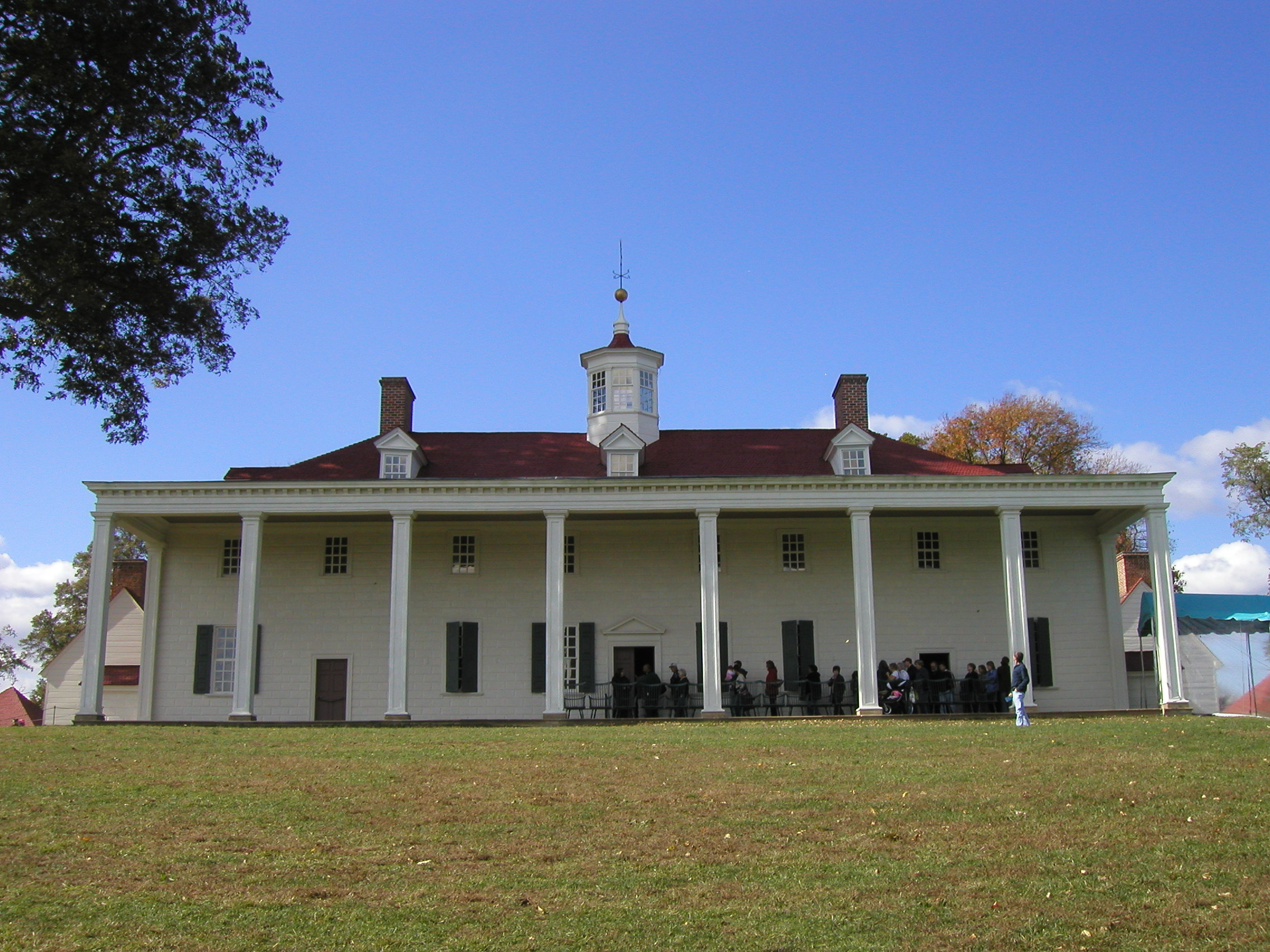 Mount Vernon in October 2006